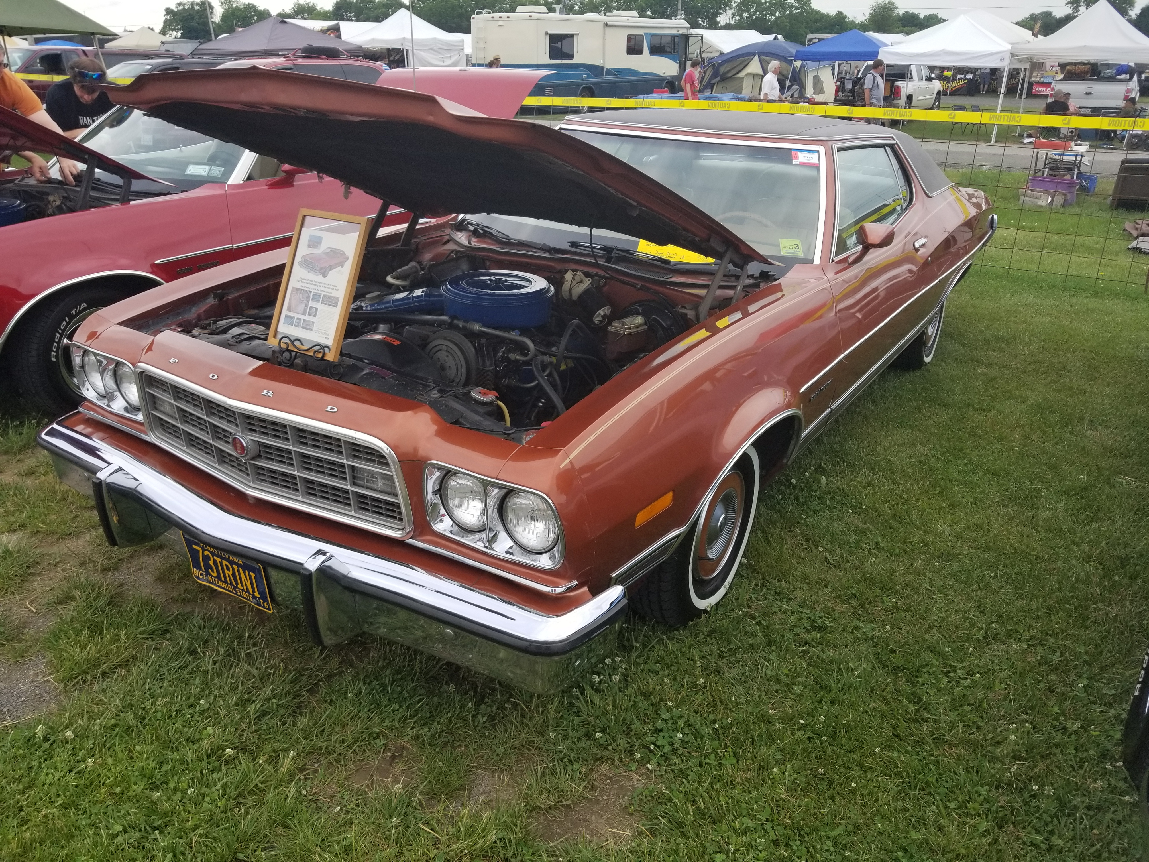 1973 Ford Gran Torino with Luxury Decor Group